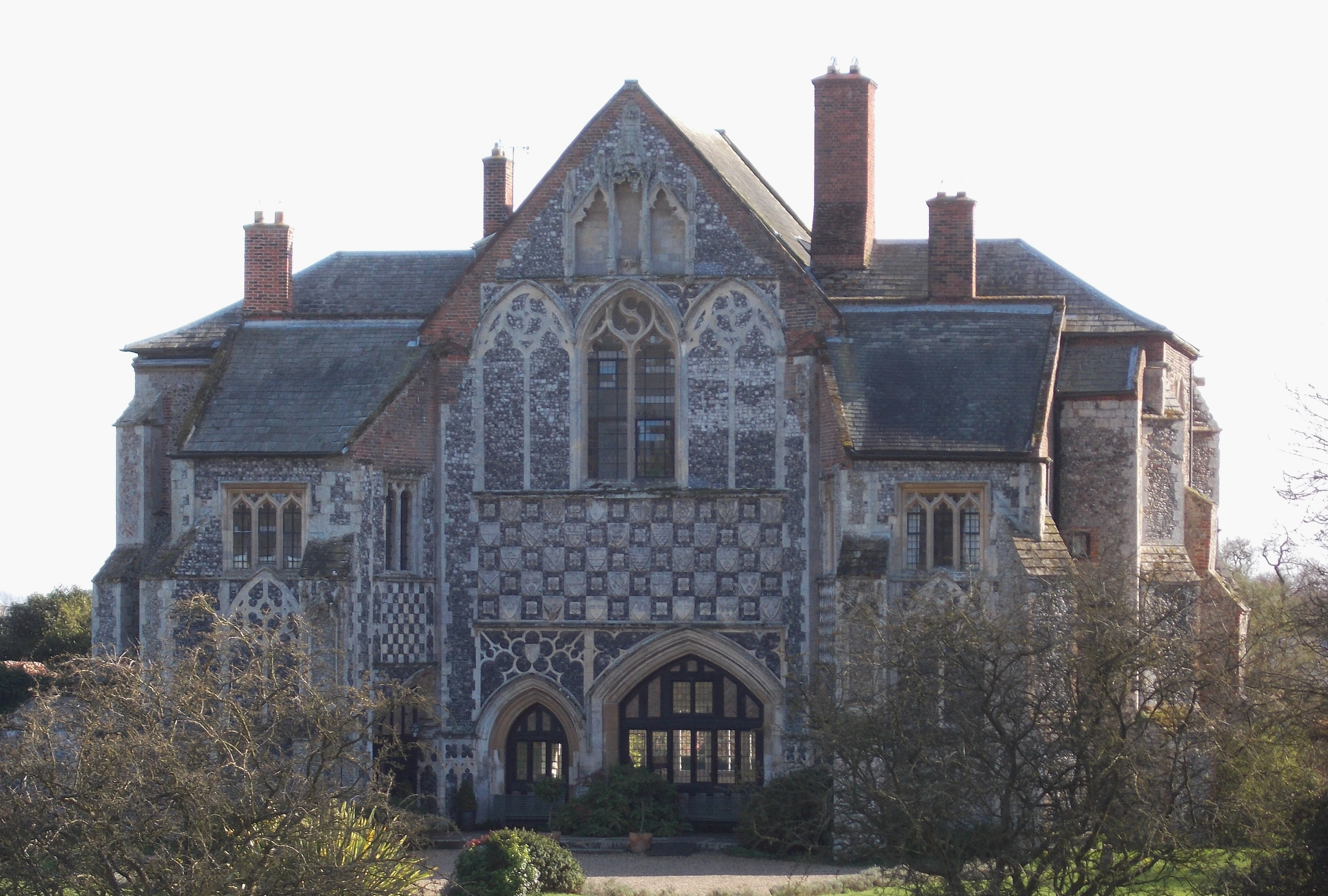 Frontal view of Butley Priory Gatehouse (14th century), north side